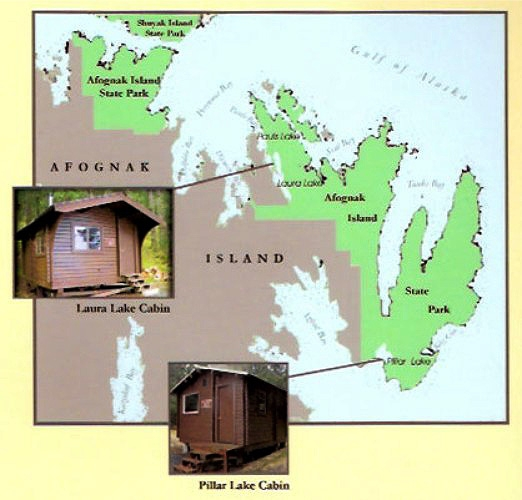 Map of the public use cabins at Afognak Island